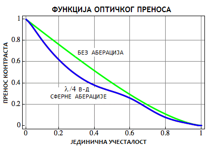 ФУНКЦИЈА ОПТИЧКОГ ПРЕНОСА - ПРИМЕР